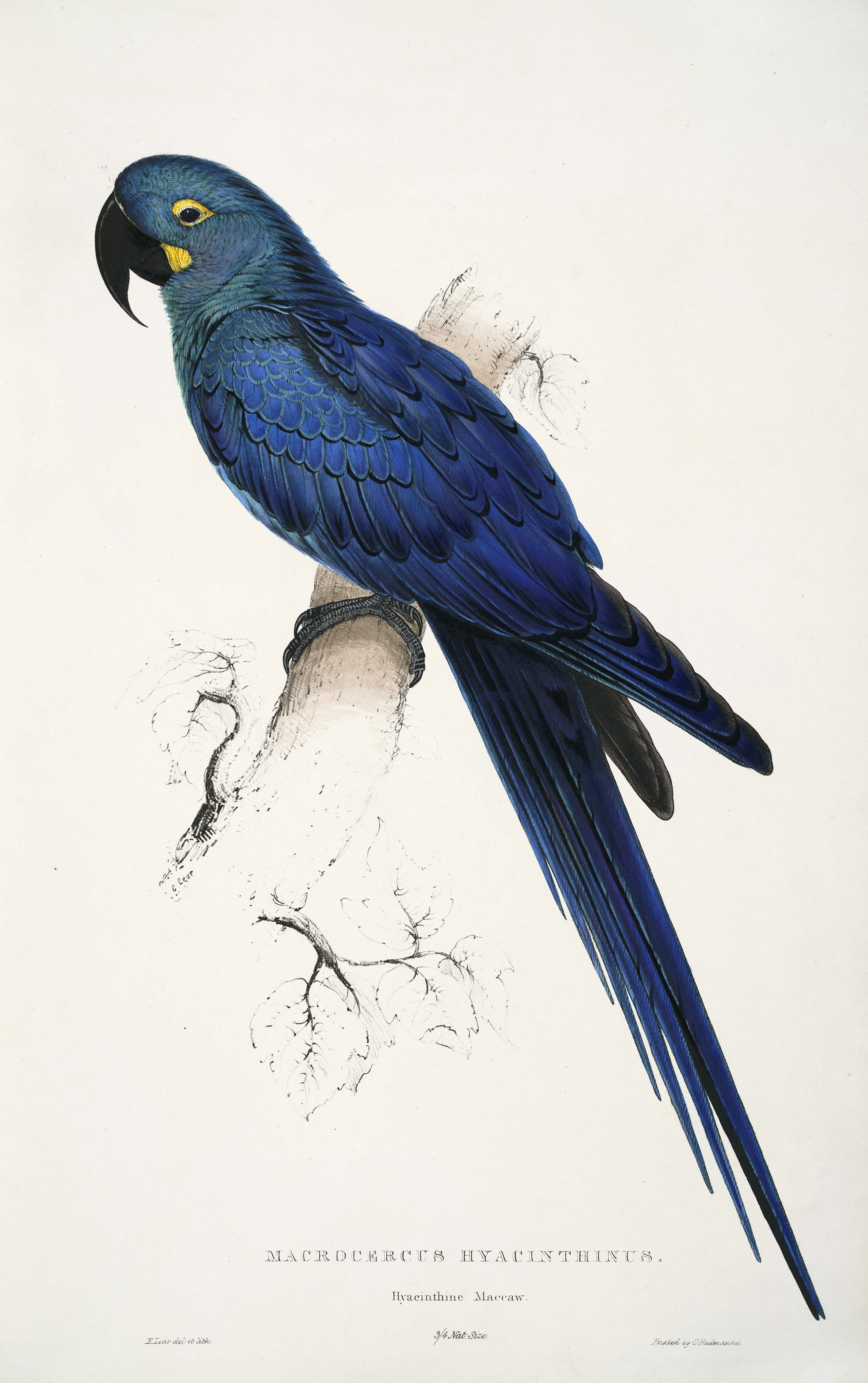 An painting by Edward Lear of a Lear's Macaw, which he had originally mistakenly described as a Hyacinth Macaw (before Lear's Macaw had been identified as a separate species)